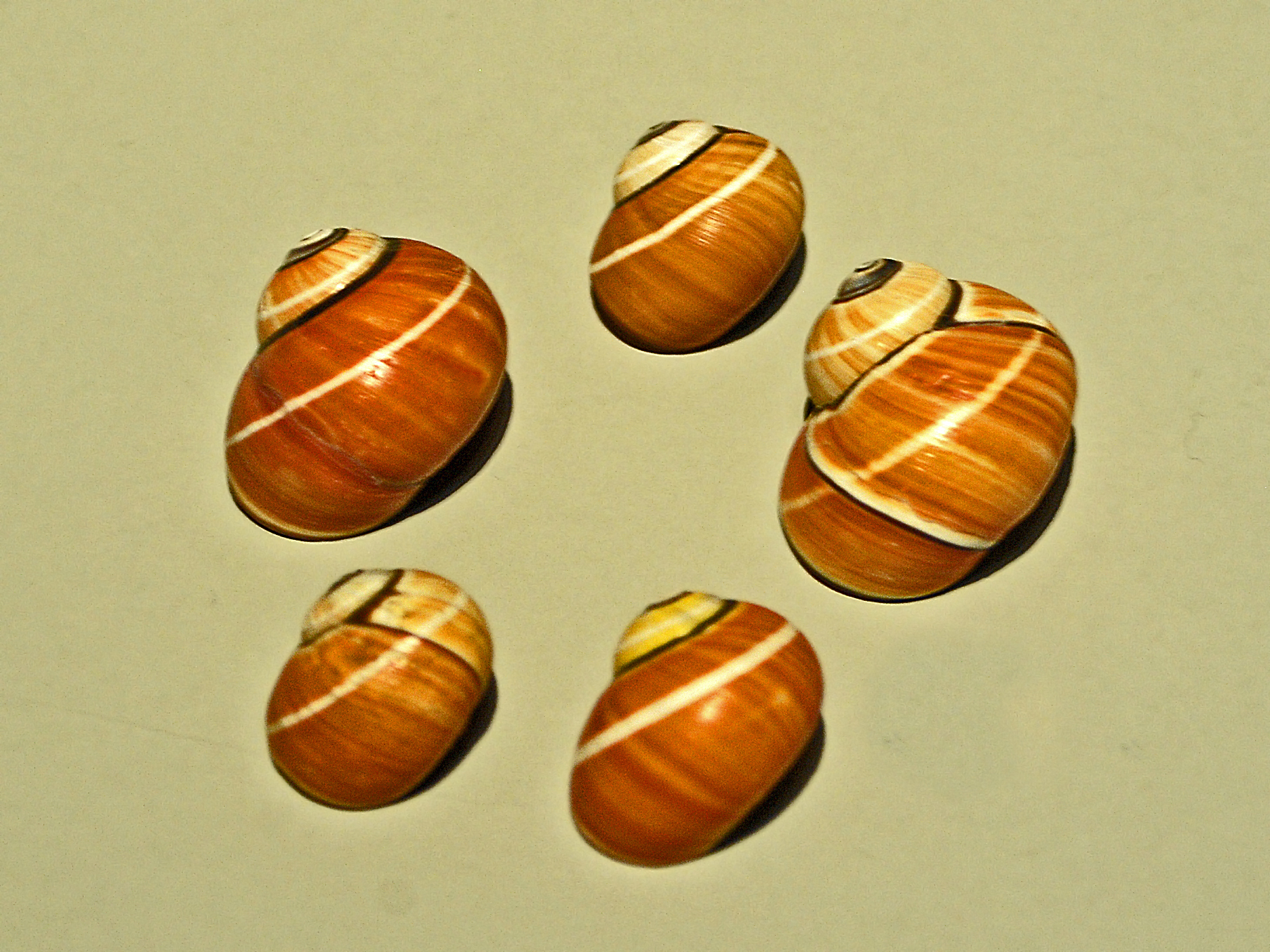 Shells of Polymita pictaon display at the Museo Civico di Storia Naturale di Milano